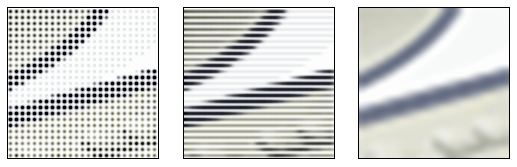 Image I made to show how a given set of pixels can lead to different reconstructed images, not necessary made of squares. The pixel values from Image:Pixel-example.png were used.